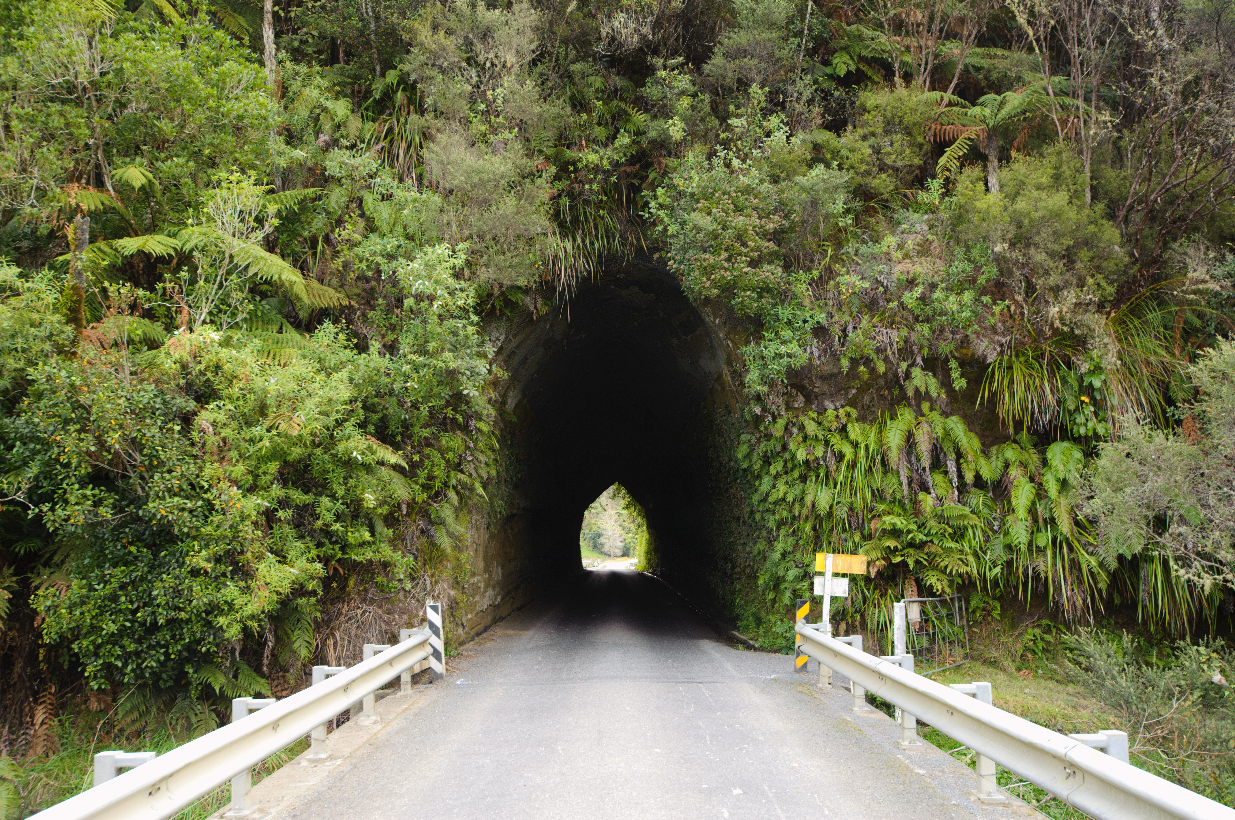 Tunnel and bridge (in foreground) on Okau Road, some 5 km drive from Ahititi in Taranaki, New Zealand.